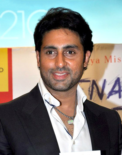 Abhishek Bachchan at a book unveiling ceremony, 2013